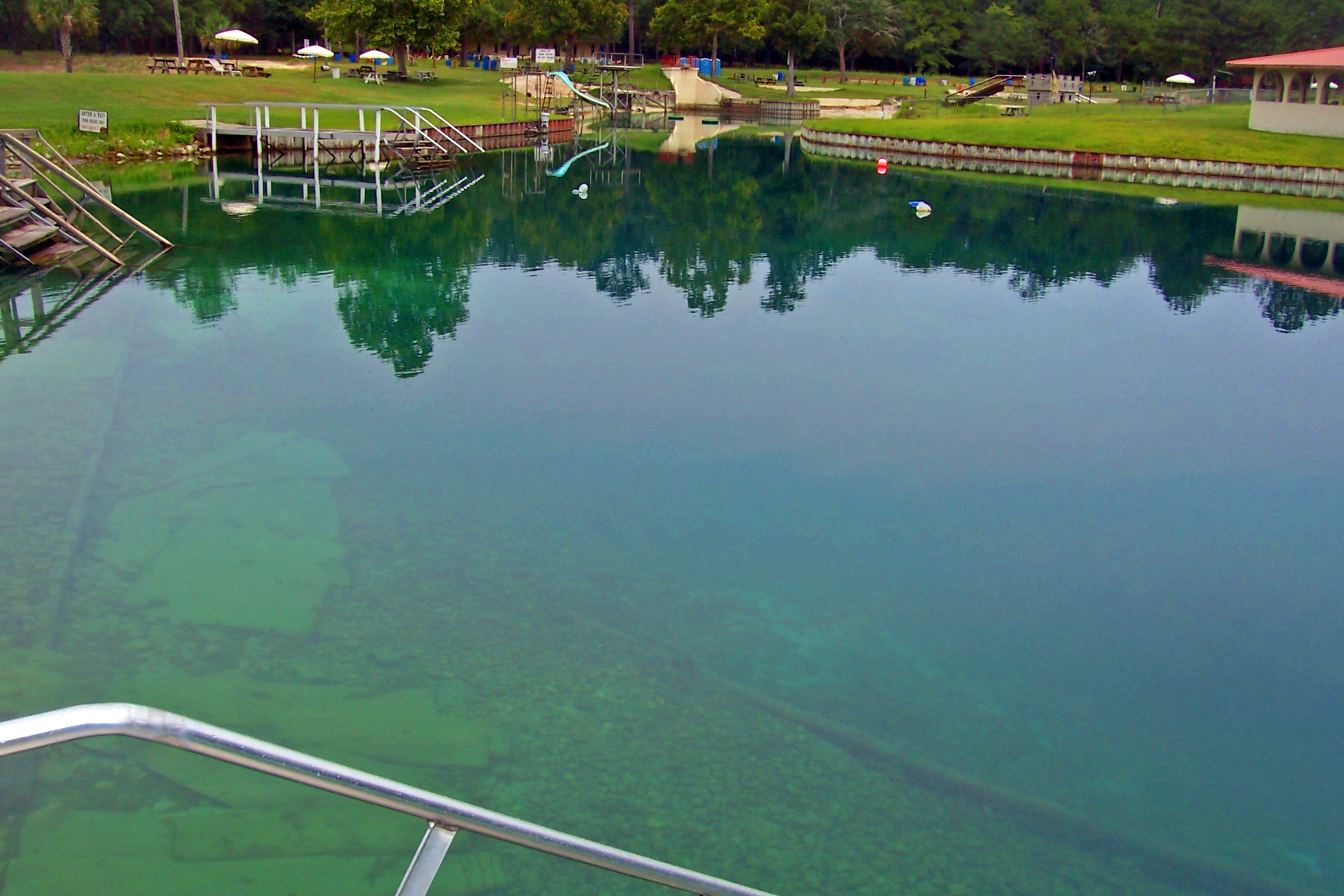 Vortex Spring (Holmes County, FL)